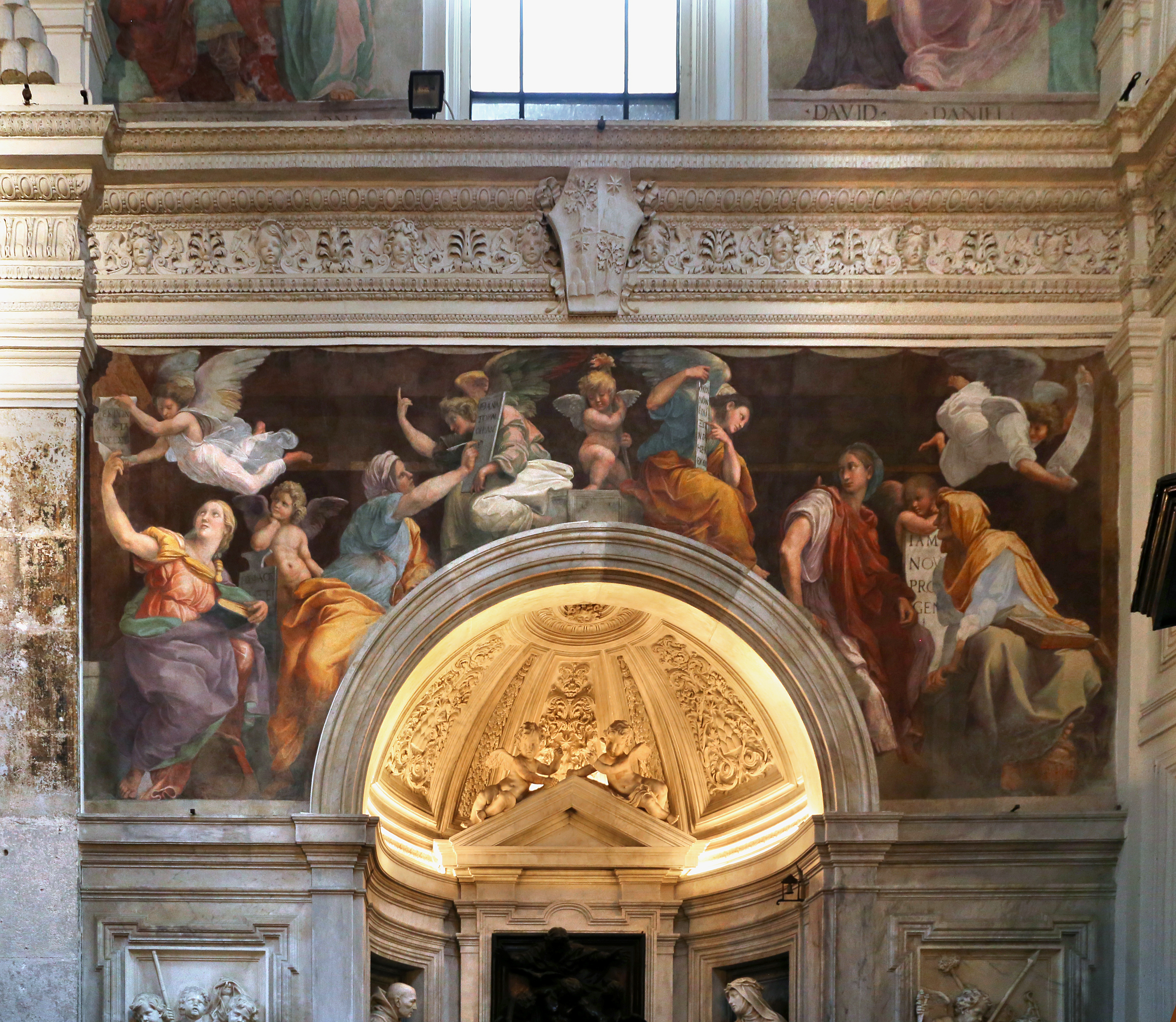 Santa Maria della Pace Sybils